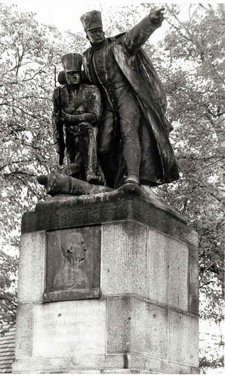 Bülow Memorial, battle of Dennewitz, Brandenburg, Germany (sculptor: Victor Seifert)